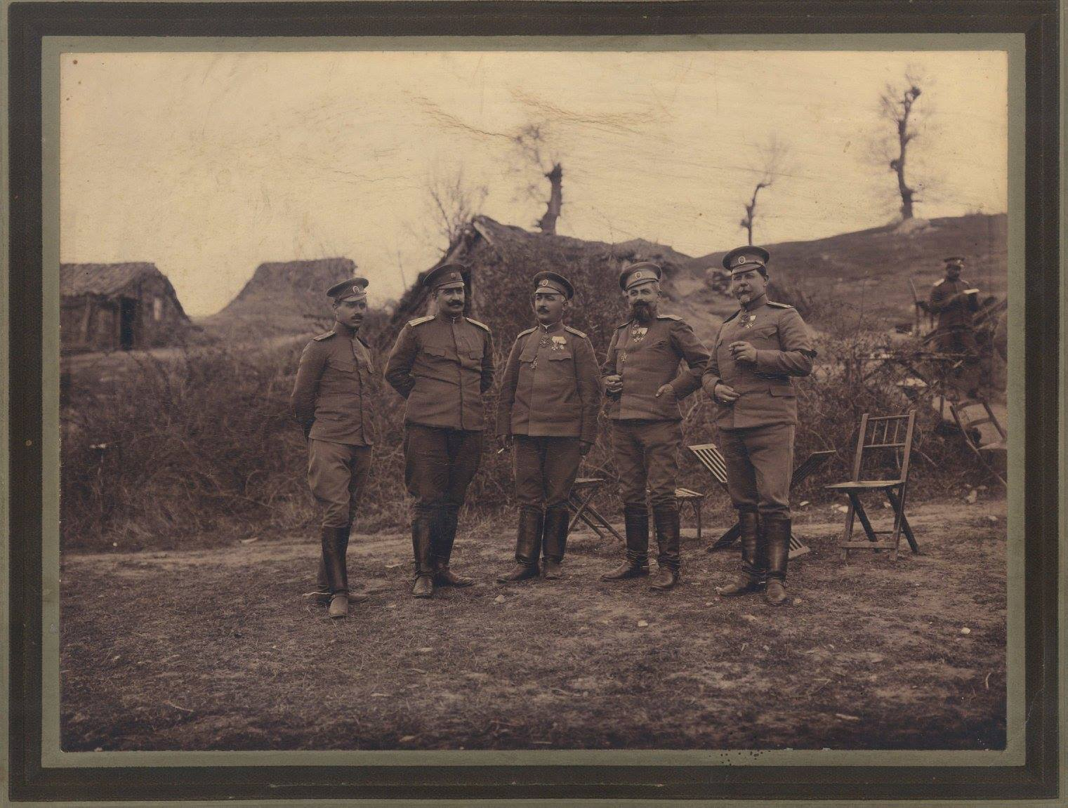 Boris Strezov, Petar Darvingov, Alexandar Protogerov, Krastyo Zlatarev, Peyu Banov - officers of the Bulgarian 11th Division in WWI.